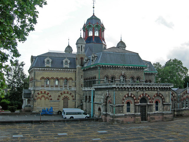 Old Abbey Mills Pumping Station, Stratford. This photo was taken from The Greenway, a path that runs along the top of the Northern Outfall Sewer. It is a grade 2 listed building, and is no longer used for its original purpose, having been replaced by a new facility next door. It still houses reserve pumps for the new facility. The job of the pumping station is to move sewage from one level to another, higher one. It is a very important job -- you wouldn't have any practical alternatives. This link tells more about this unit: Abbey_Mills_Pumping_Stations